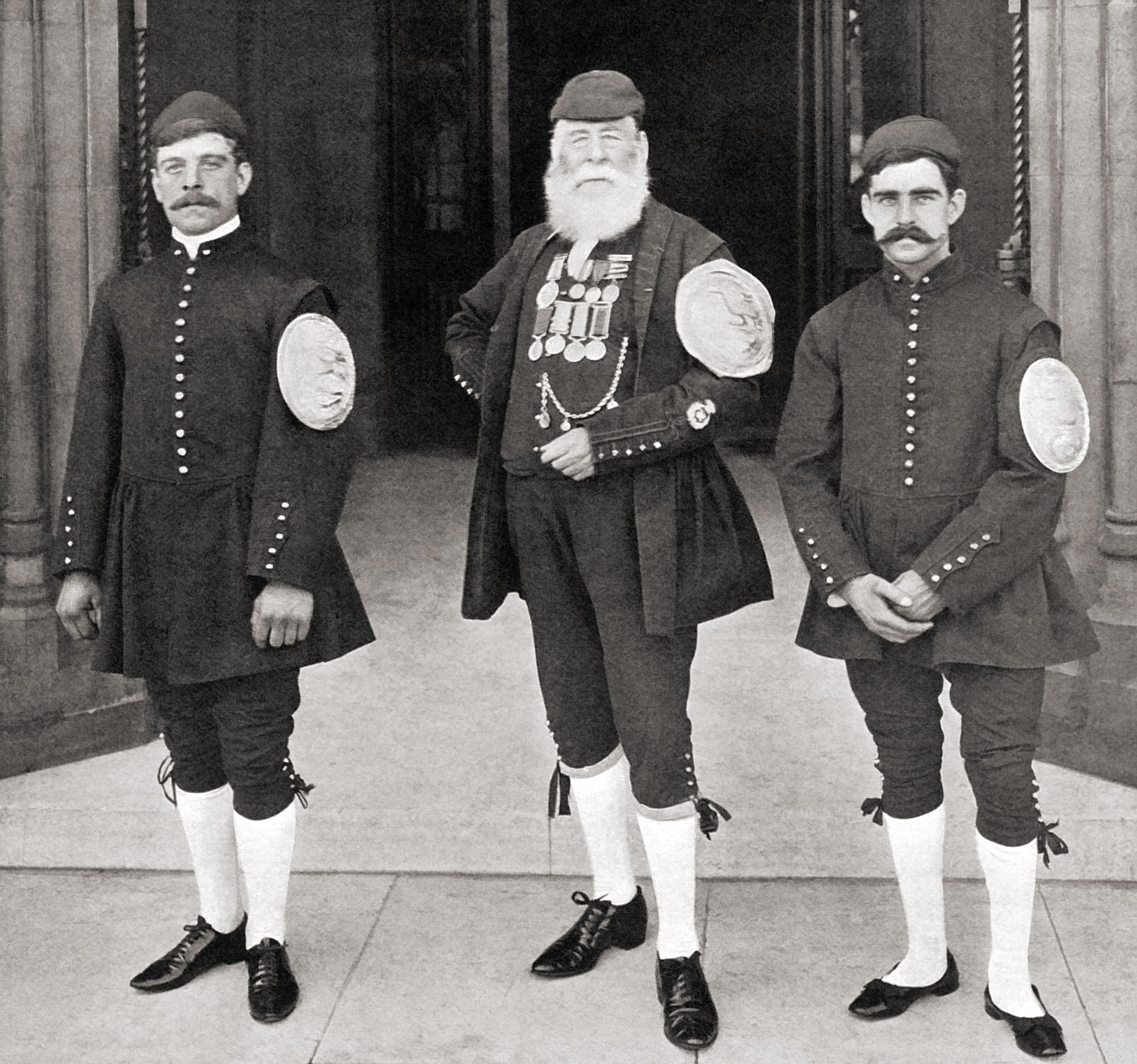 Three winners of Doggett's Coat and Badge, the oldest rowing race in the world. Pictured, left to right, are: J. J. Turferry (winner in 1900), W. H. Campbell (1850), A. H. Brewer (1901).